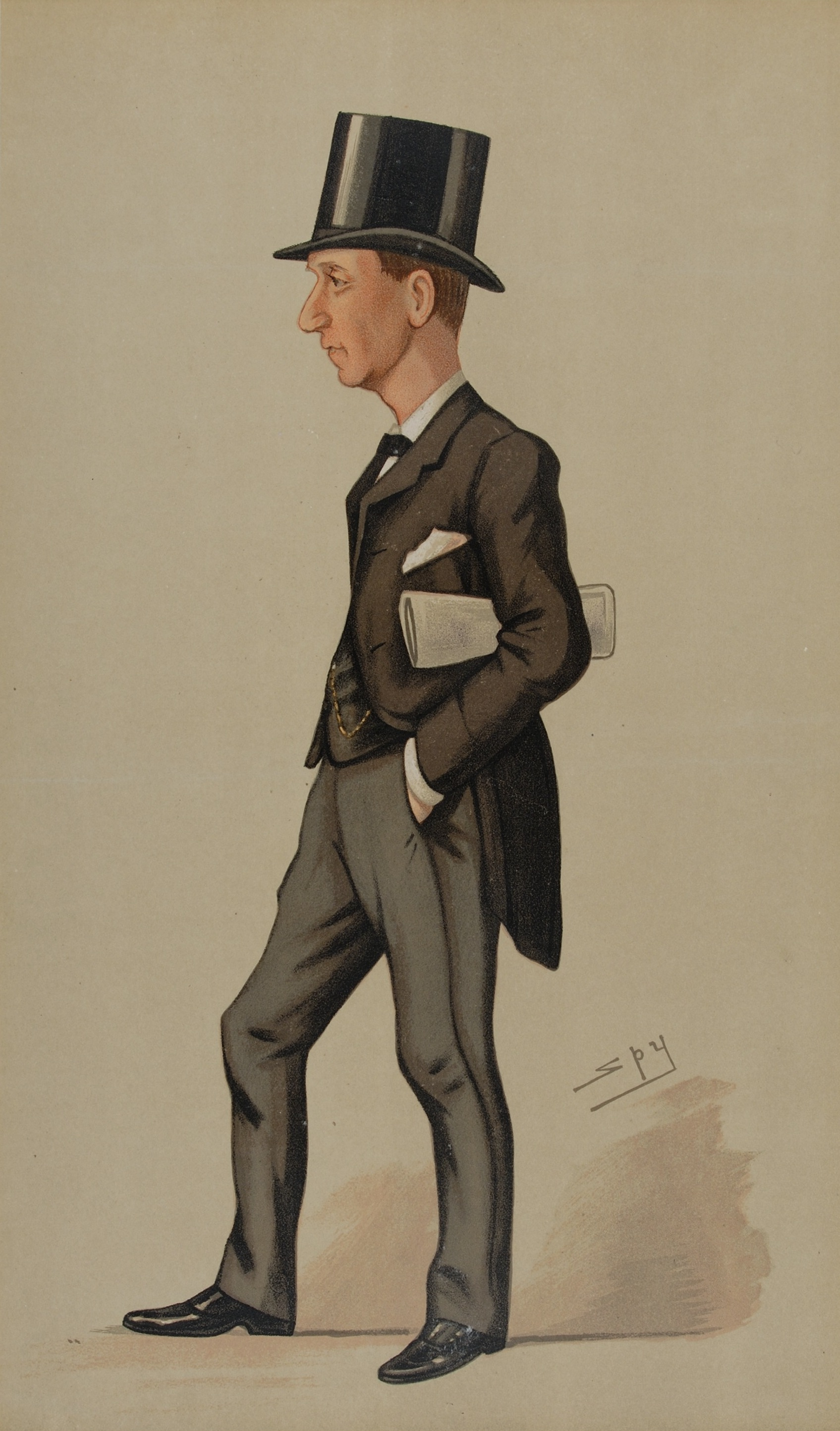 Statesmen No. 582: Caricature of Herbert Henry Asquith, Q.C., M.P.. Caption read "East Fife".